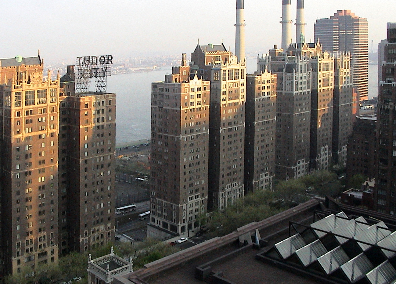 Tudor city with the East River in the background